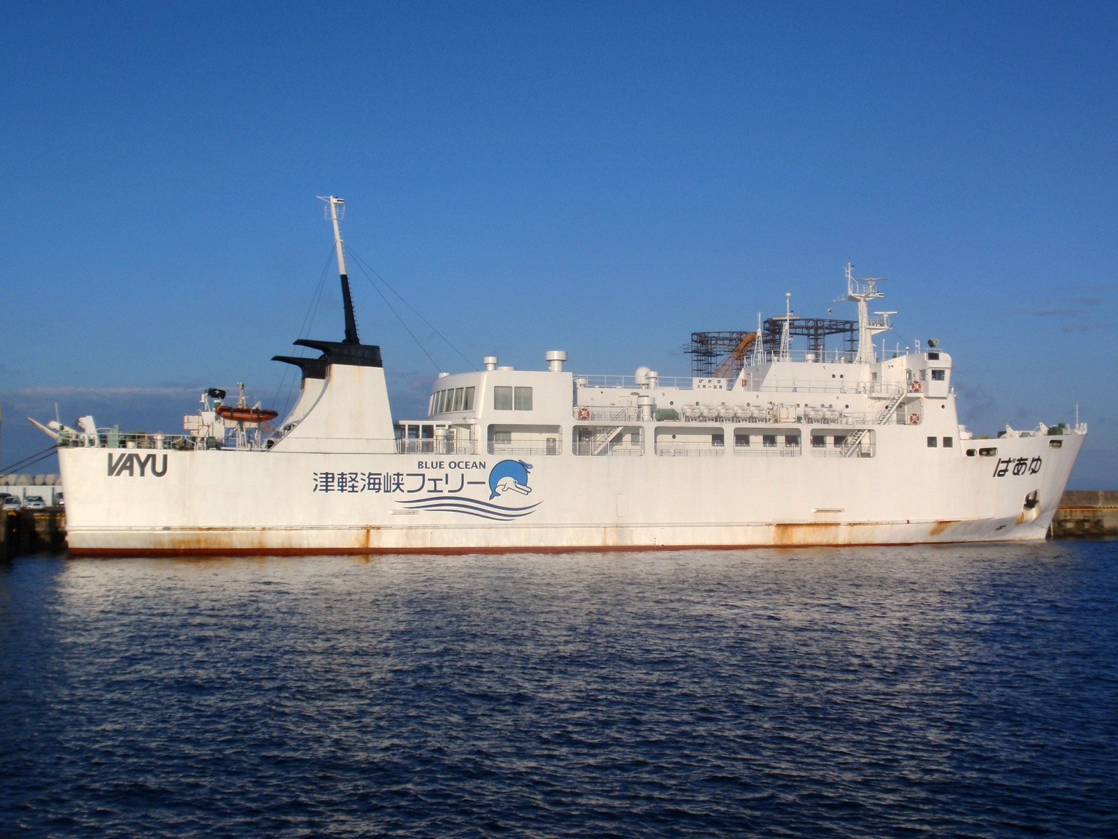 Ferry Vayu IMO number: 8718562 Callsign: JD2551